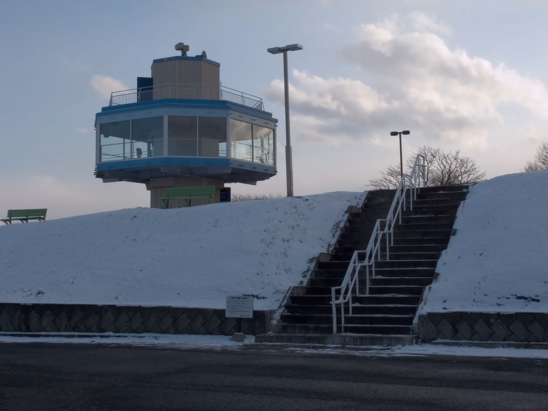 The observation tower of Mombetsu Park, Mombetsu, Hokkaido, Japan